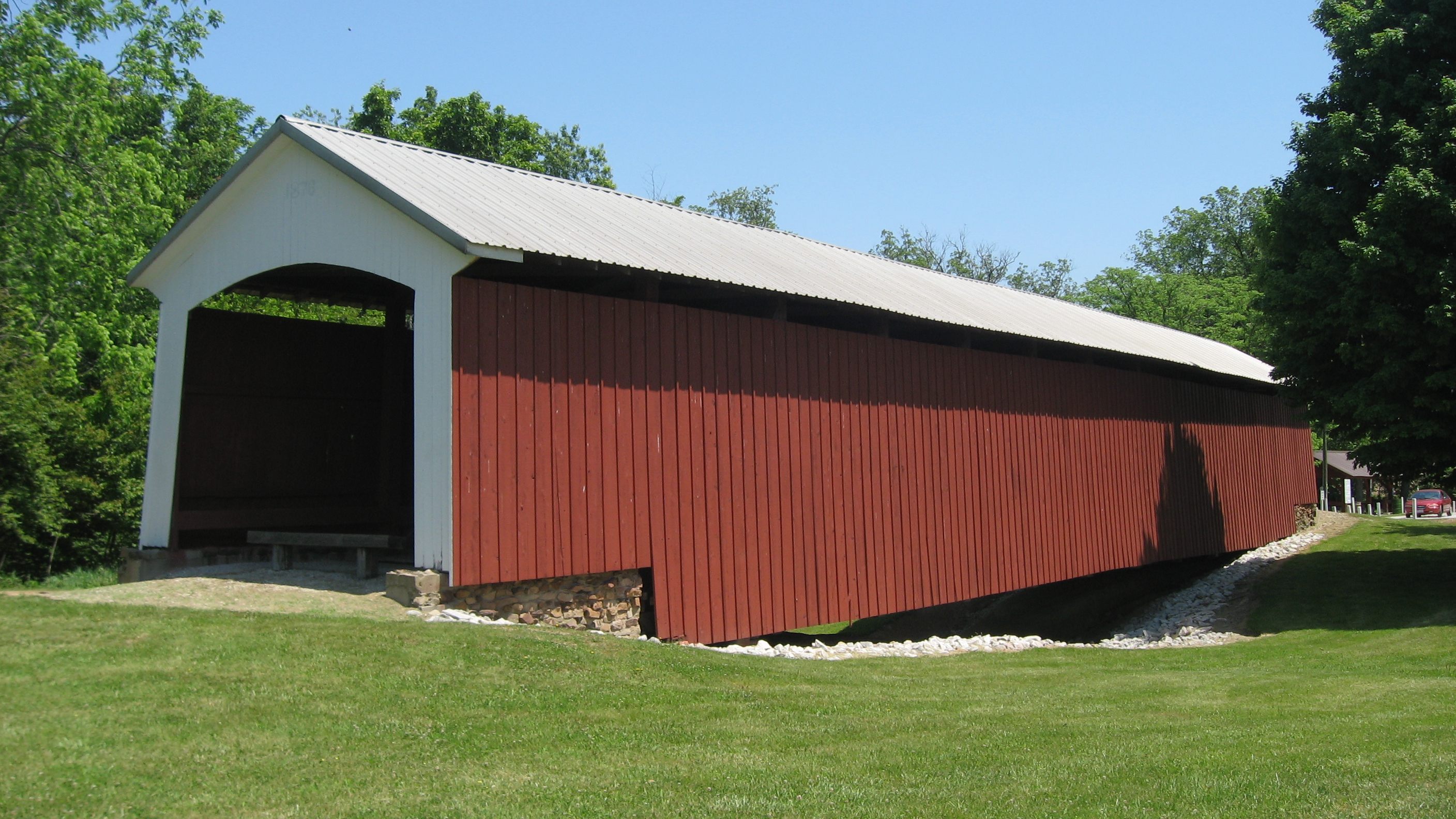 Western portal and southern side of the Possum Bottom Covered Bridge, located in the Ernie Pyle Rest Park on the northern side of U.S. Route 36 southeast of Dana in Helt Township, Vermillion County, Indiana, United States. Built in 1876, it is listed on the National Register of Historic Places.